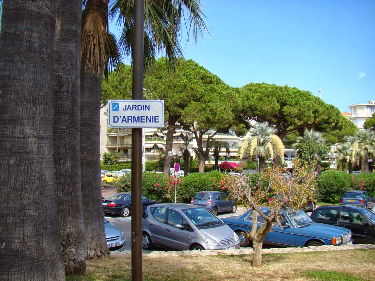 Armenian garden in Cannes